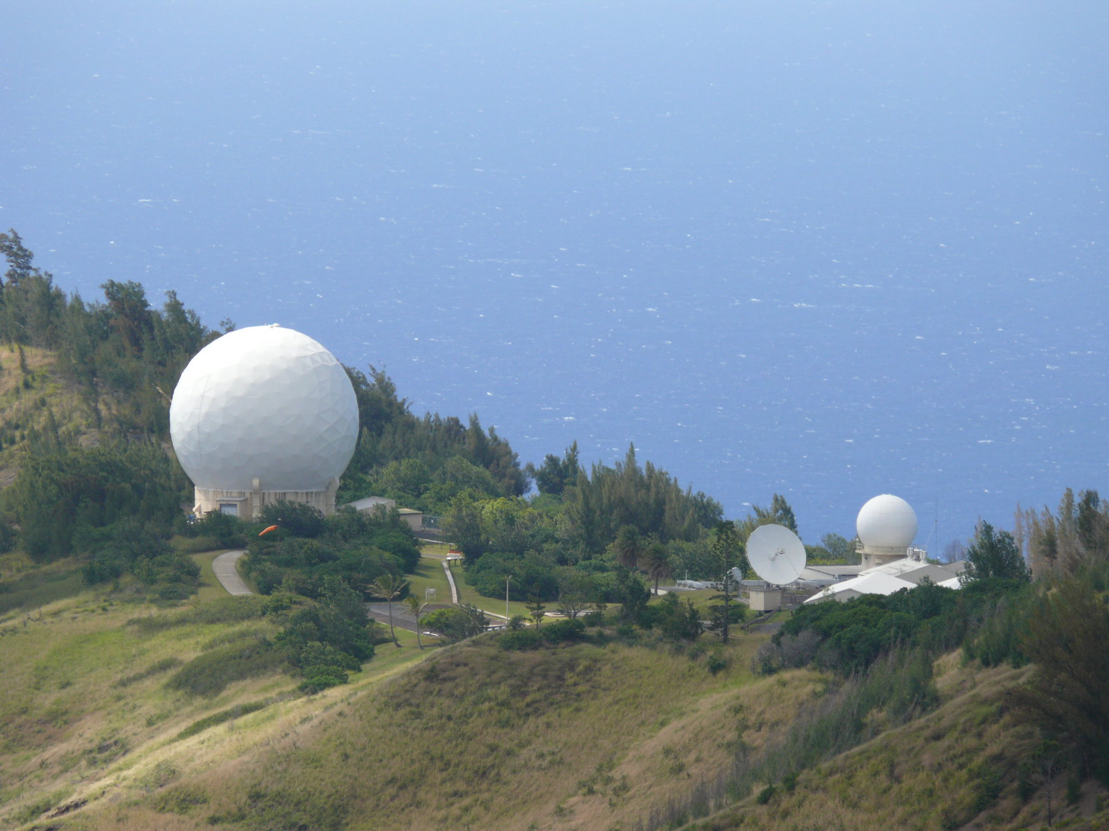 Kaena Point Satellite Tracking Station